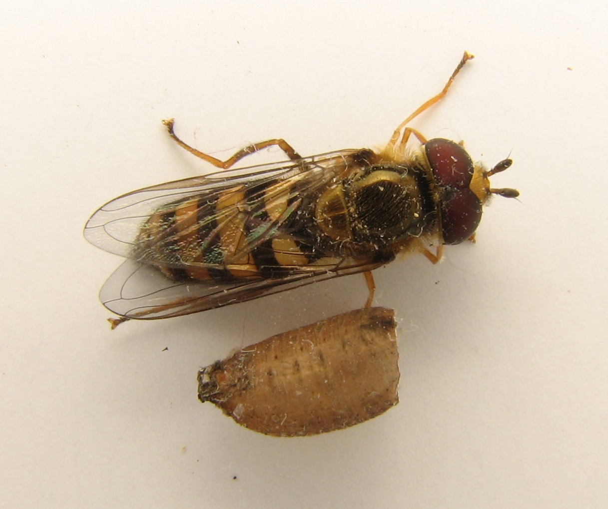 Newly emerged adult male American hover fly, Eupeodes americanus. Schuylkill Nature Center, Philadelphia County, Pennsylvania, USA.